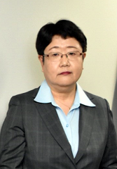 Takashi Yamashita, Minister of Justice, and Shōko Sasaki, Commissioner of the Immigration Services Agency, attended an unveiling ceremony at the Central Government Building No.6 in Chiyoda Ward, Tōkyō Metropolis on April 1, 2019.